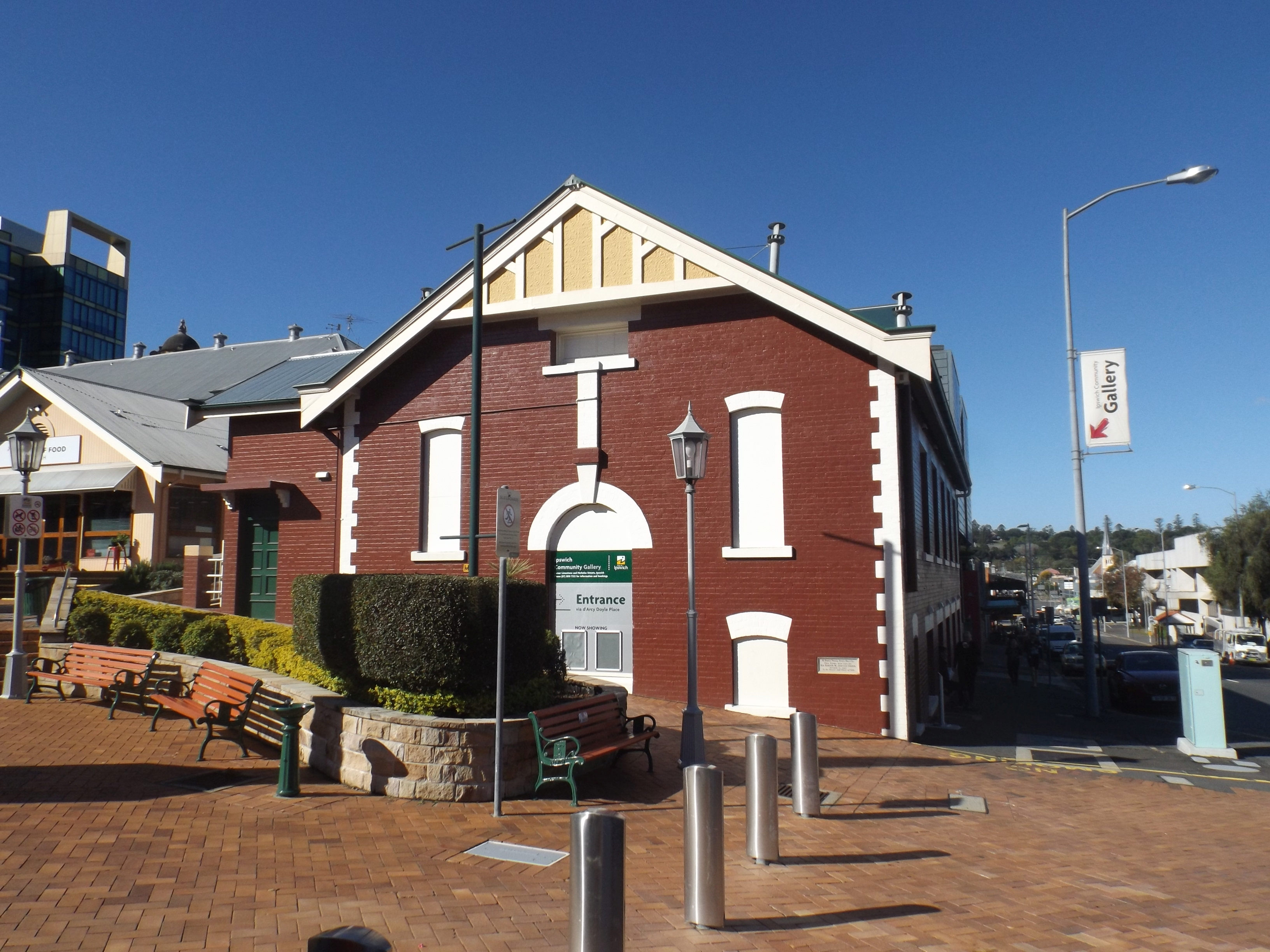 Photo of St Paul's Young Men's Club at Ipswich, Queensland, Australia.